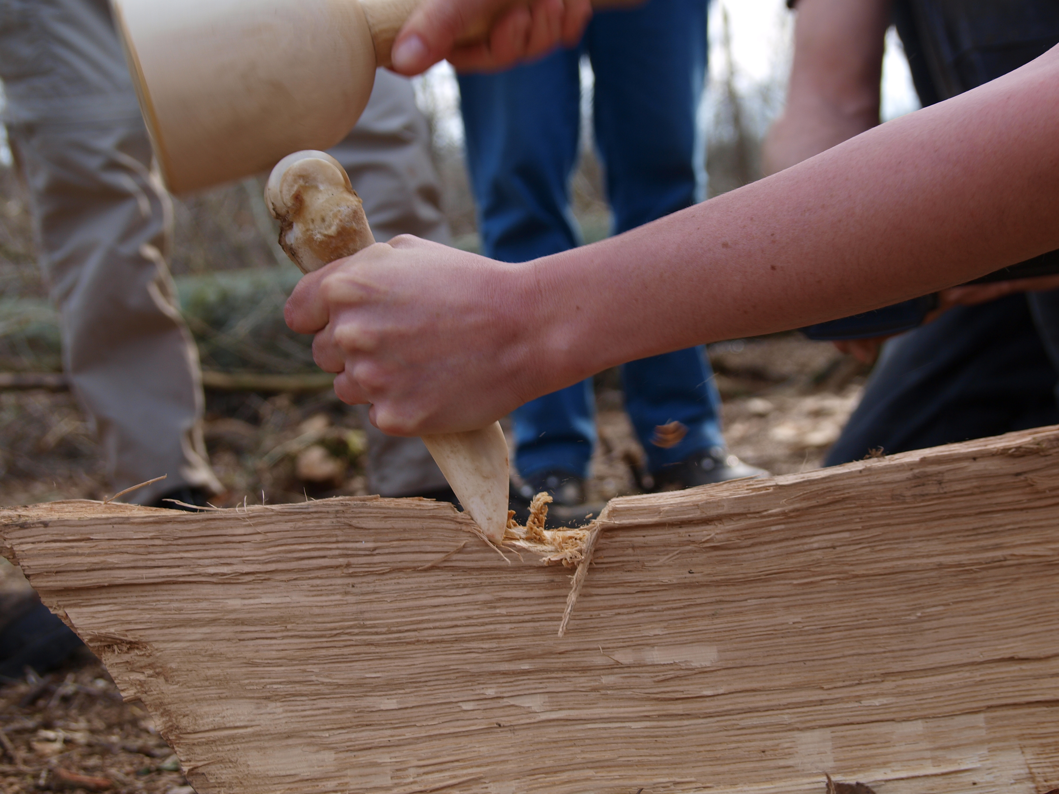 Reconstructed bone chisle in action at at Ergersheim Experiments 2012.